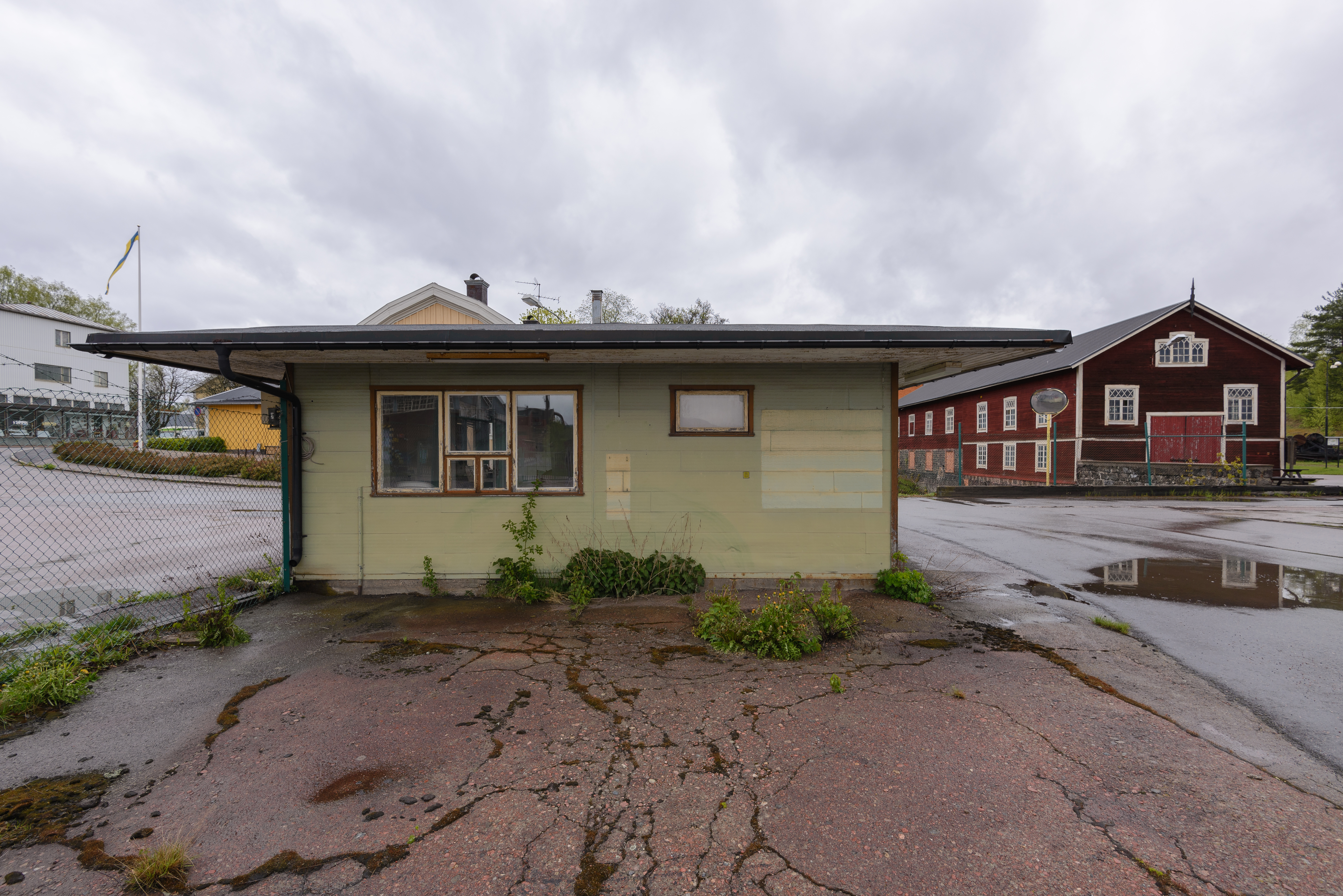 Former entrance to Klosterverken (Kloster mill) Långshyttan, Hedemora Municipality.